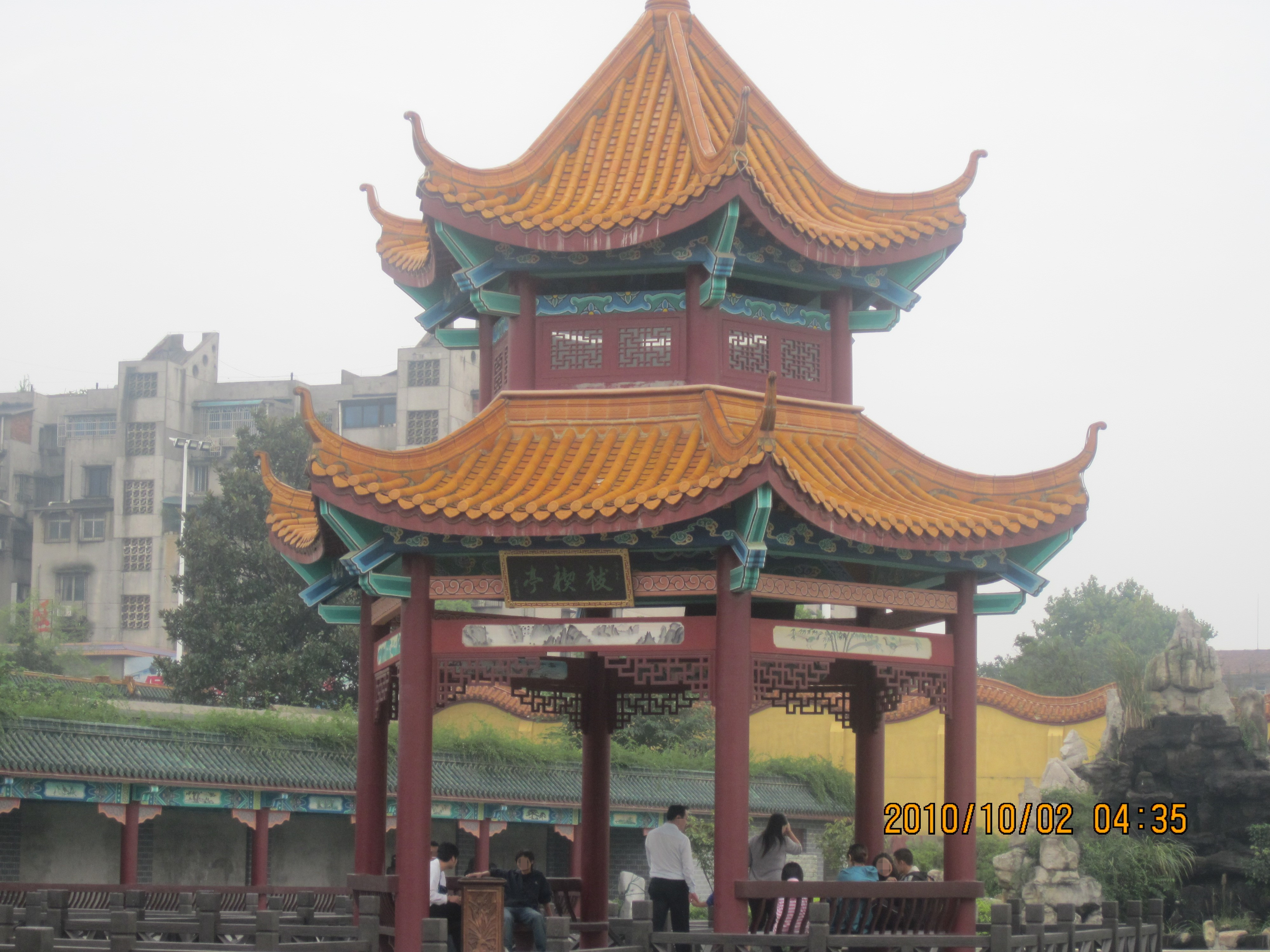 Changsha famous buddhist temple, changsha tourist attractions.This picture shows The Fu Xi Pavilion